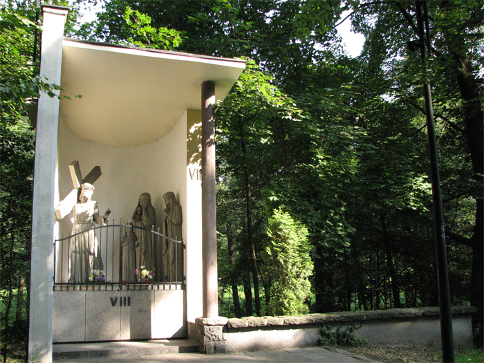 Calvary in Katowice Panewniki, Stations of the Cross - "Jesus meets the daughters of Jerusalem". Completed in 1950. Sculptor brother Leonard Bannert OFM.